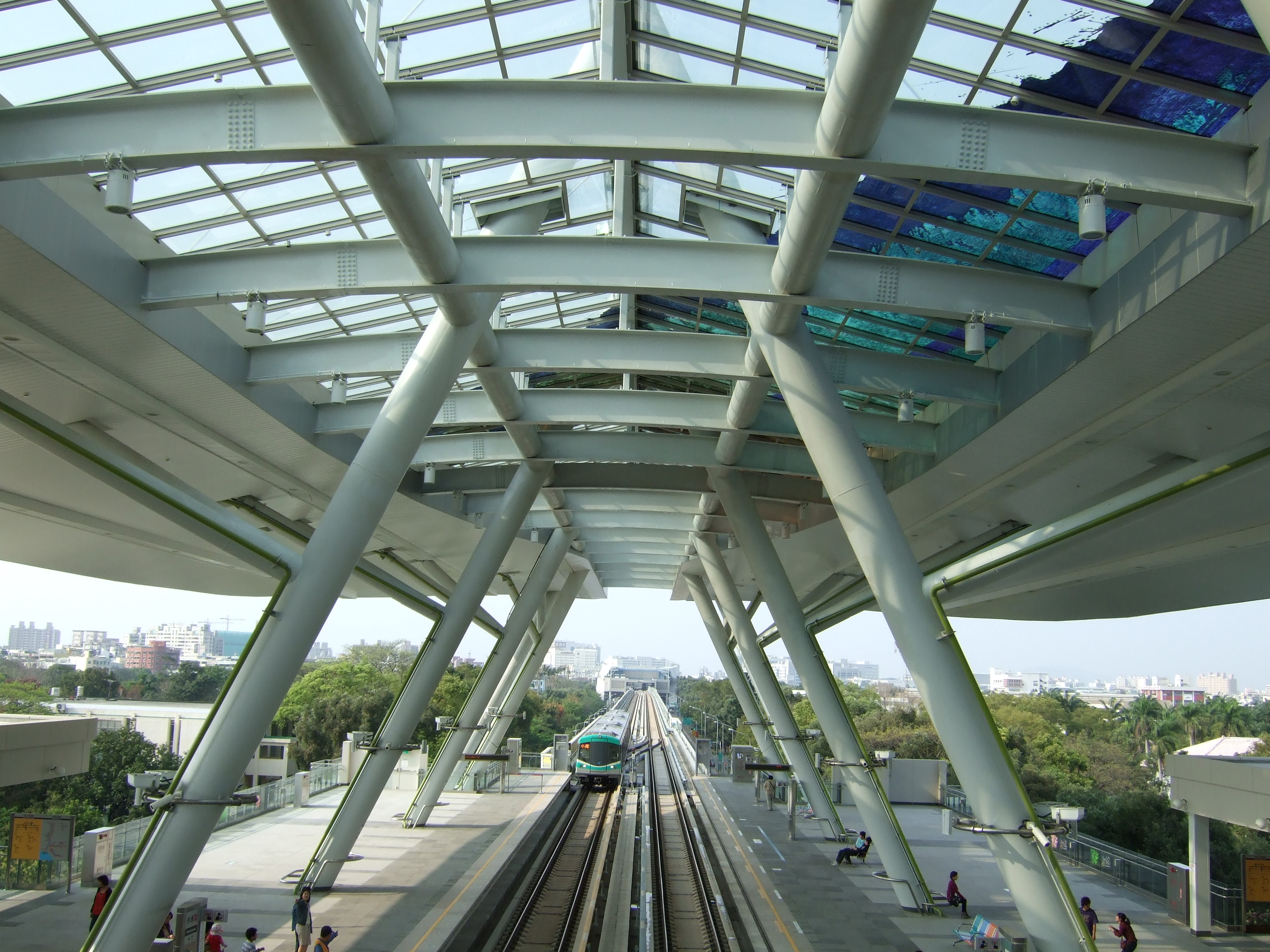 Kaohsiung MRT World Games Station.